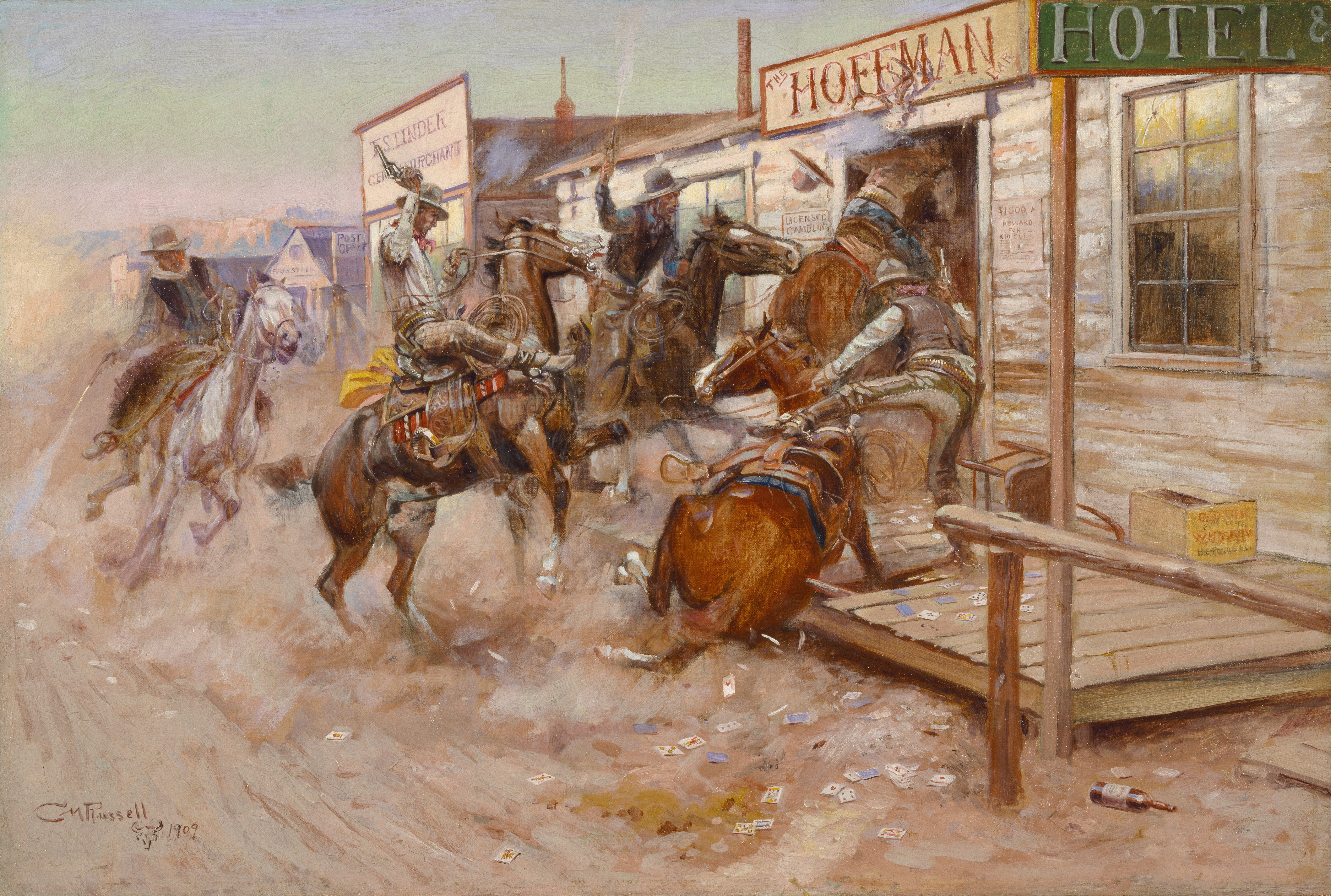 In Without Knocking – Charles Marion Russell - Google Cultural Institute